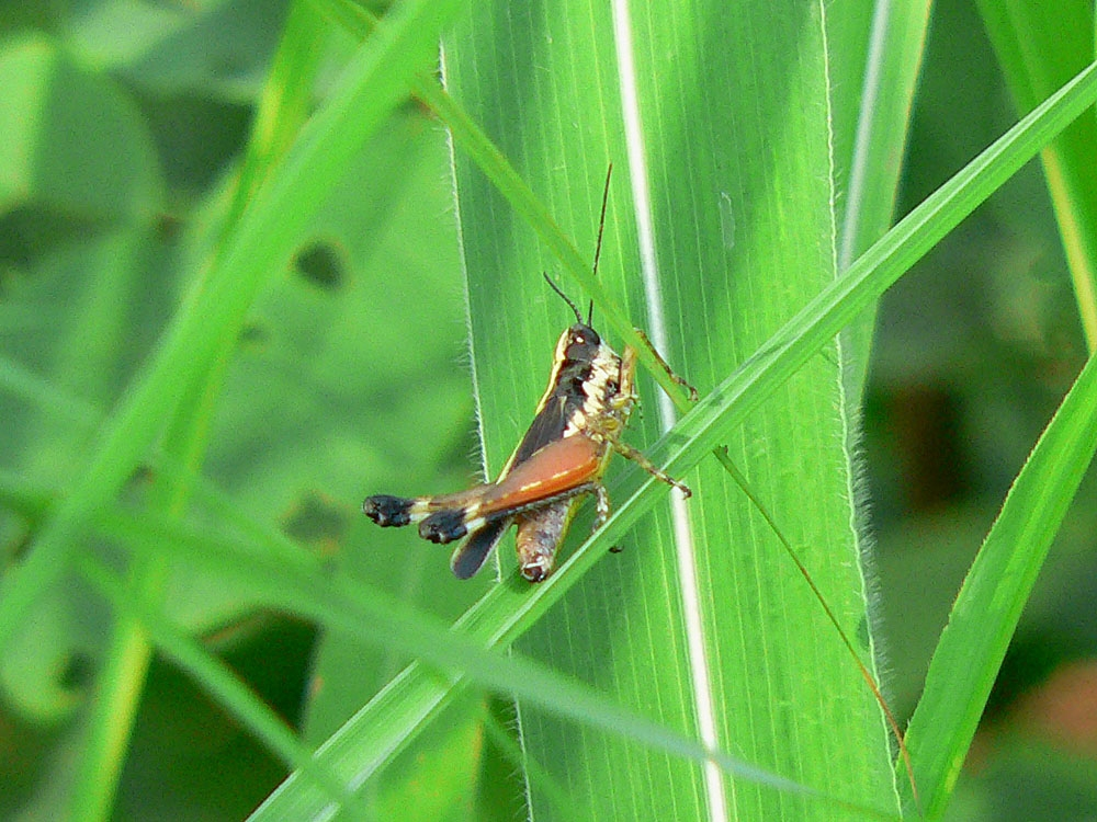 Female Zacompsa festa photographed near Bembereke, Benin.